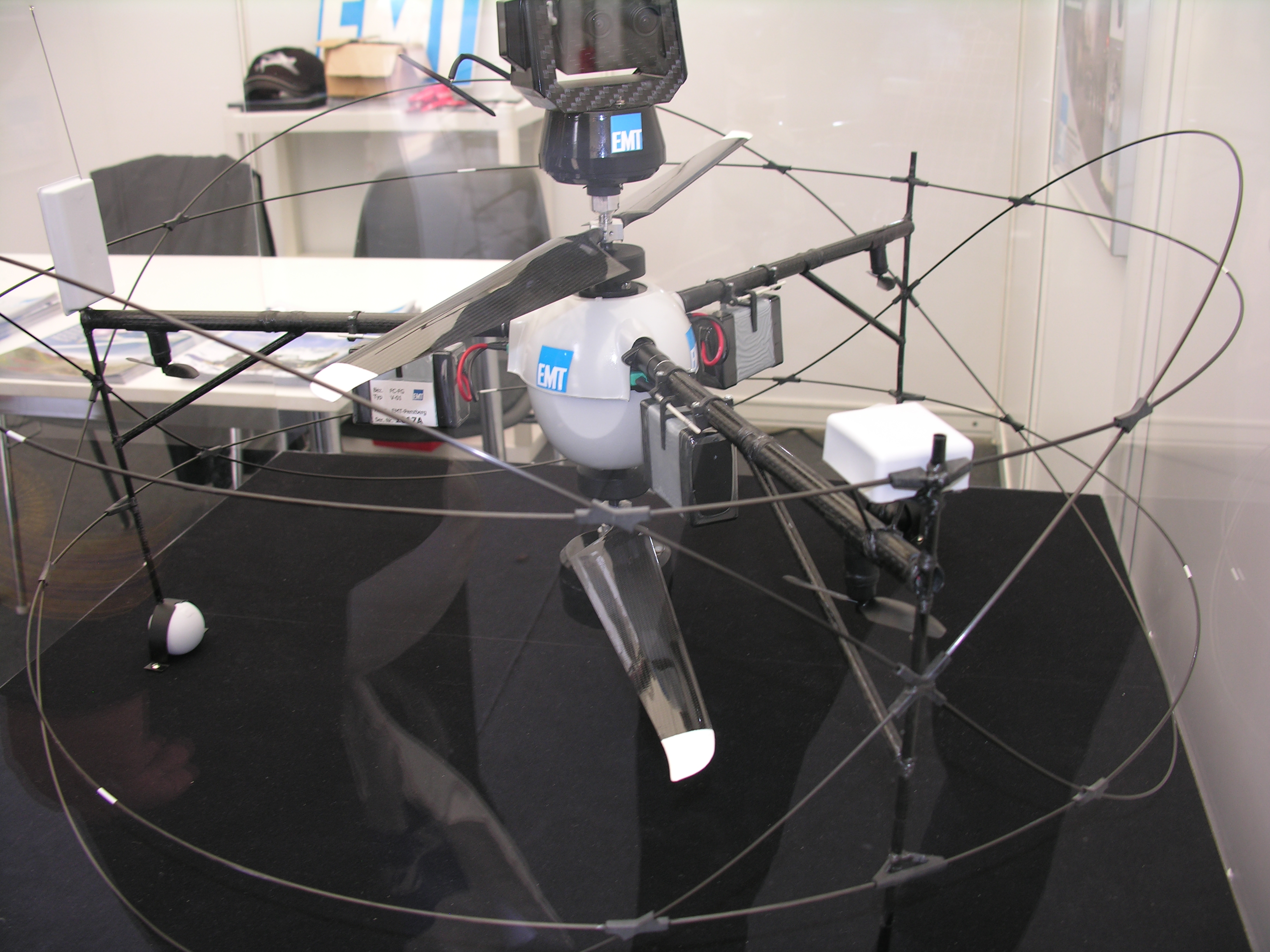 UAV EMT FANCOPTER on TechDemo'08 Exhibition